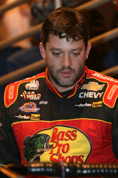 Rumble in fort wayne, memorial coliseum, fort wayne, in, december 26, 2008 - nascar driver tony stewart looks over his #2 munchkin chassis before winning the 60 lap midget feature